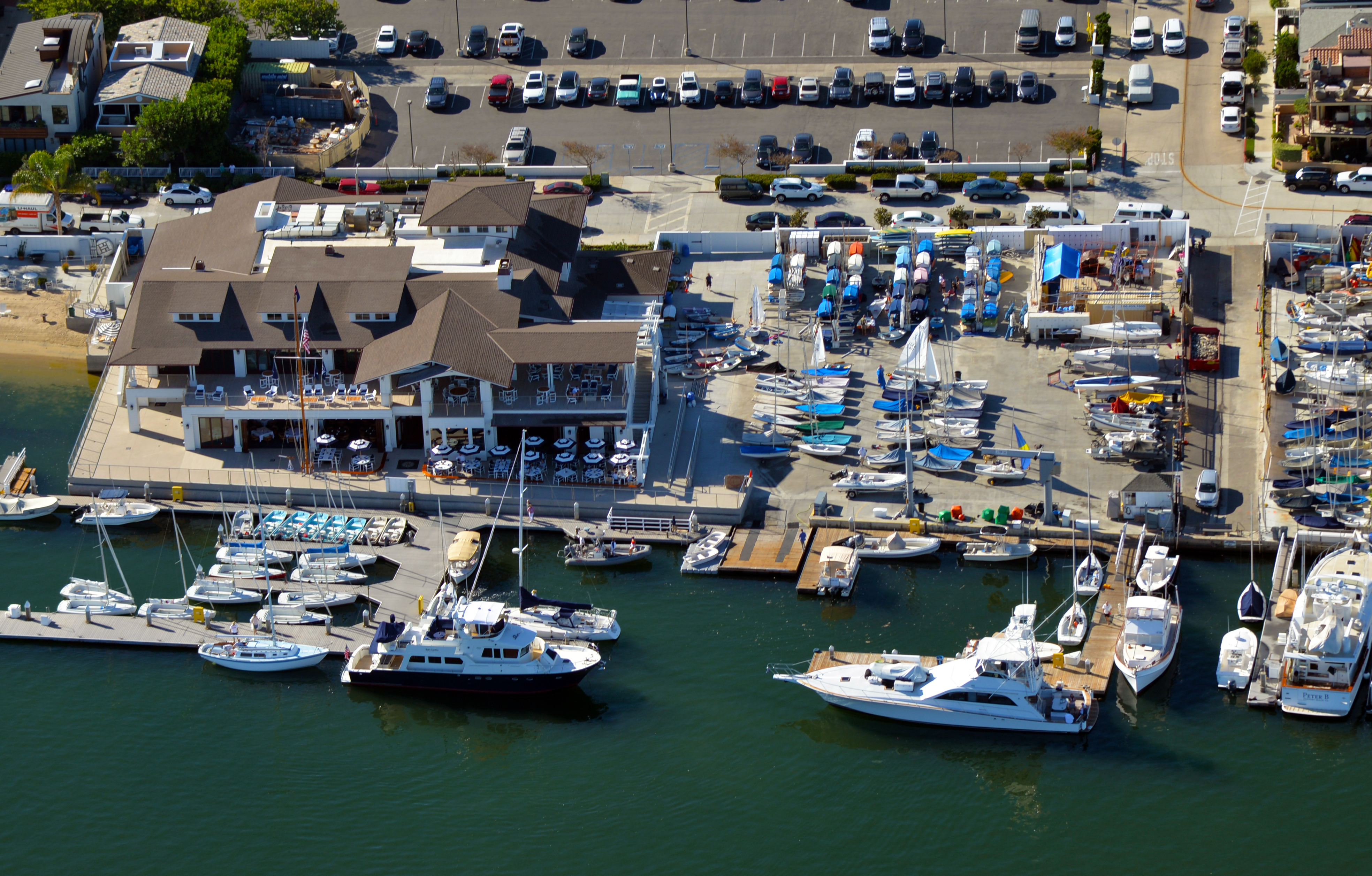 The all new Newport Harbor Yacht Club structure officially commissioned 10/27/2018